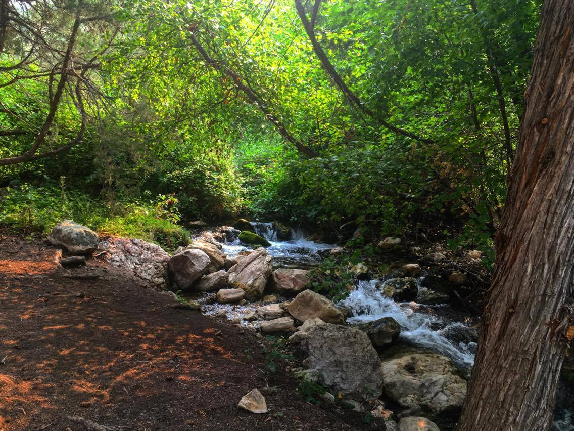 Riparian zone along Warm Spring Creek downstream of Goldbug Hot Springs in Idaho.